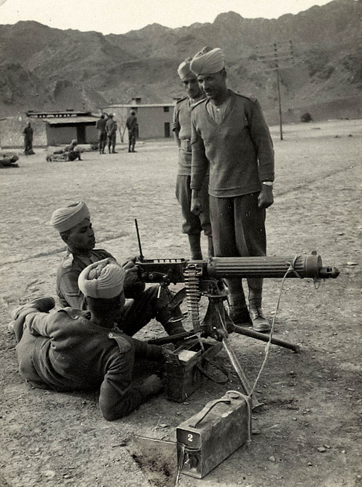 The water-cooled .303 inch Vickers was famed for its reliability and could fire over 600 rounds per minute and had a range of 4,500 yards. With proper handling, it could sustain a rate of fire for hours, providing a necessary supply of belted ammunition, spare barrels and cooling water was available. First introduced in 1912, the Vickers remained in service with the British Army until 1968.